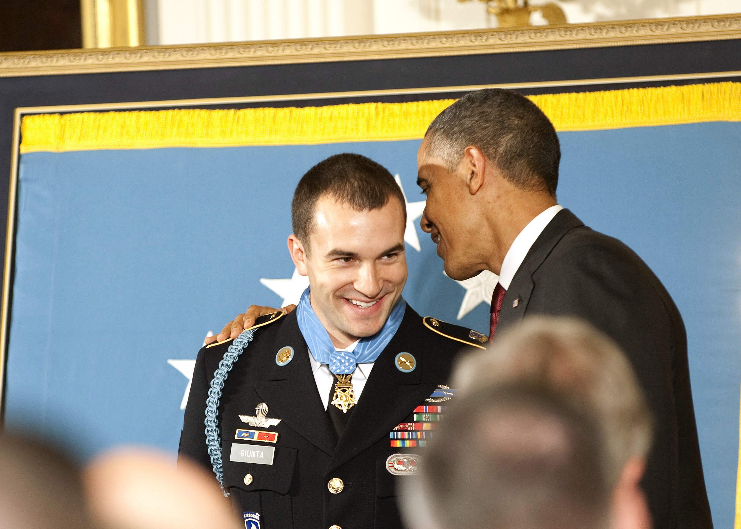 WASHINGTON -- President Barack Obama chats quietly with Staff Sgt. Salvatore Giunta of U.S. Army Europe's 173rd Airborne Brigade Combat Team just after presenting the sergeant with the Medal of Honor in a White House ceremony, Nov. 16. Giunta earned the medal for his courage under fire in Afghanistan's Korengal Valley in 2007. (Photo by Richard Bumgardner)